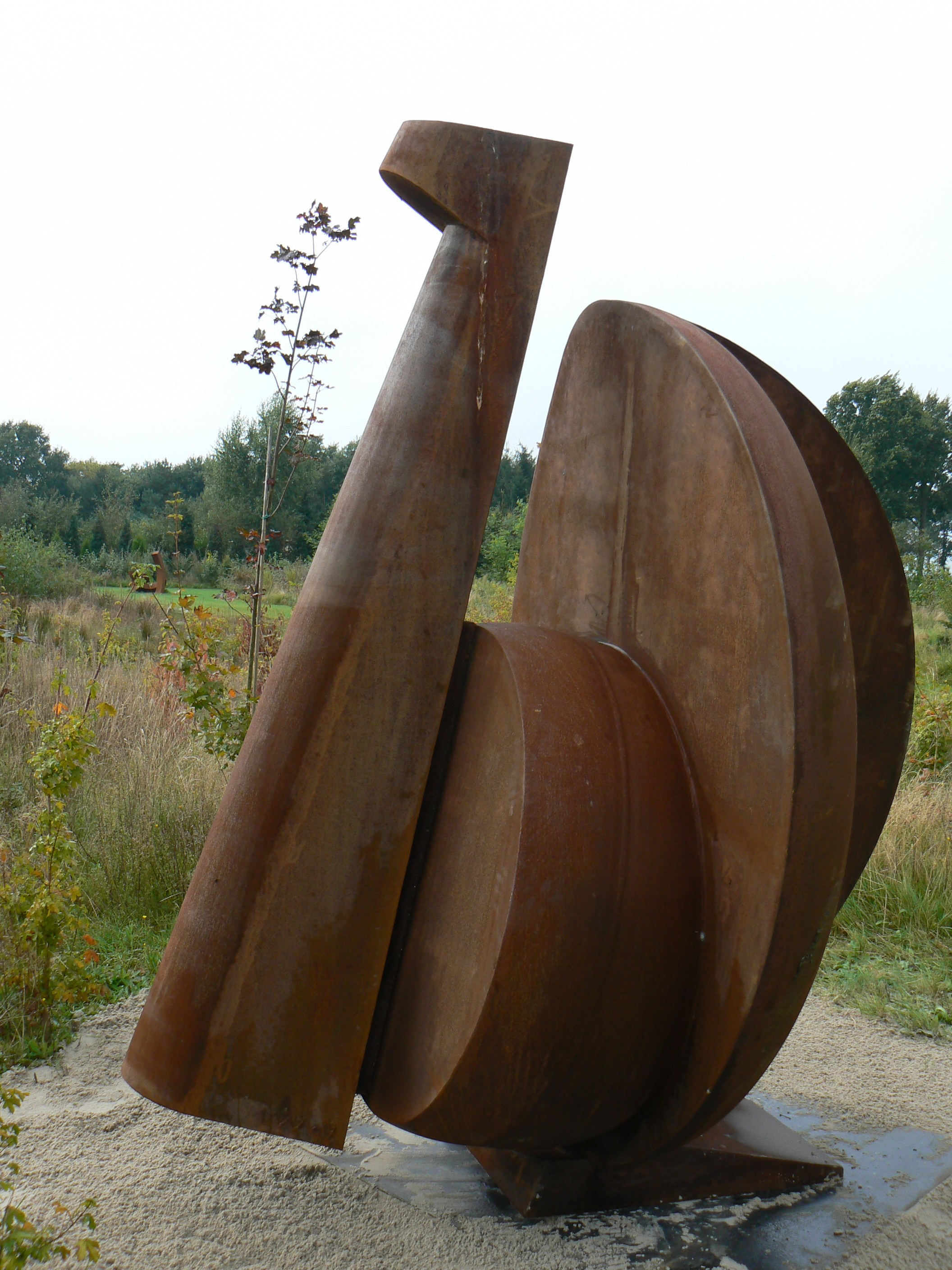 sculpture Ferruccio (2007) by German sculptor Leonard Wübbena, Private collection in The Netherlands